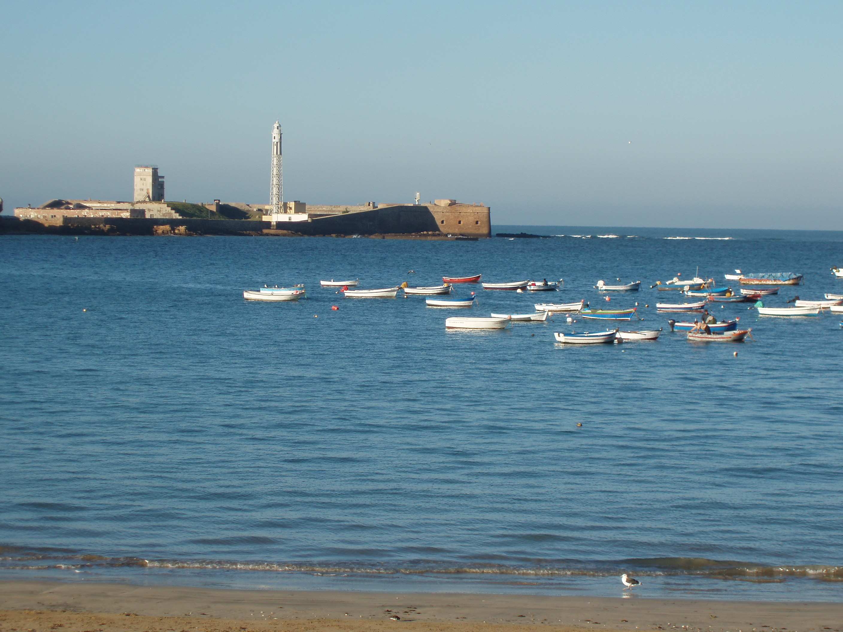 San Sebastián castle an lighthouse, La Caleta beach in Cádiz, Spain.